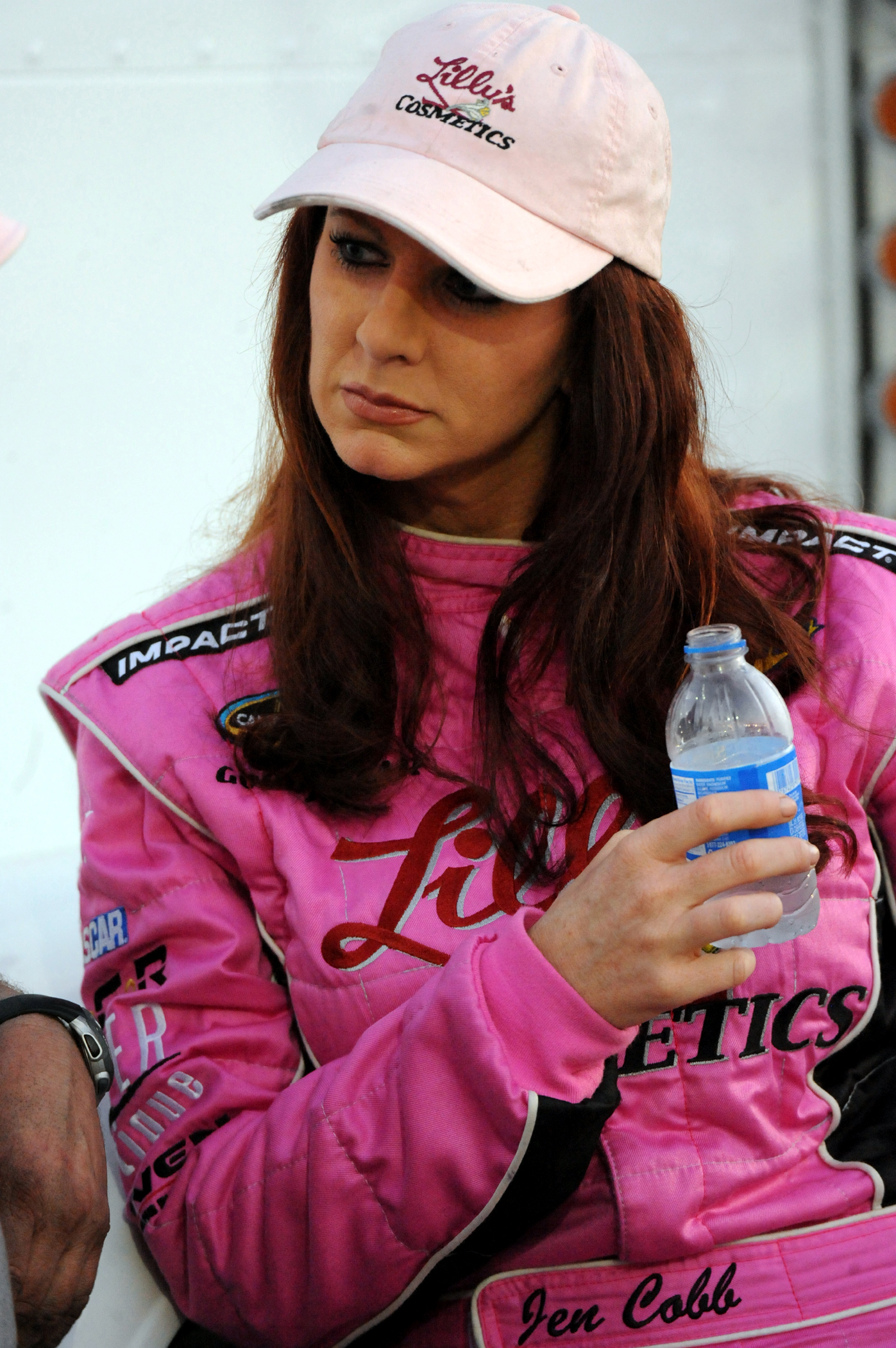 Jennifer Jo Cobb will unveil her Driven 2 Honor promotion to salute women of the U.S. military during the NASCAR Camping World Truck Series NextEra Energy Resources 250 race on Friday night at Daytona International Speedway. U.S. Army photo by Tim Hipps, FMWRC Public Affairs Jennifer Jo Cobb to unveil ‘Driven 2 Honor’ program at Daytona 110215 By Tim Hipps FMWRC Public Affairs